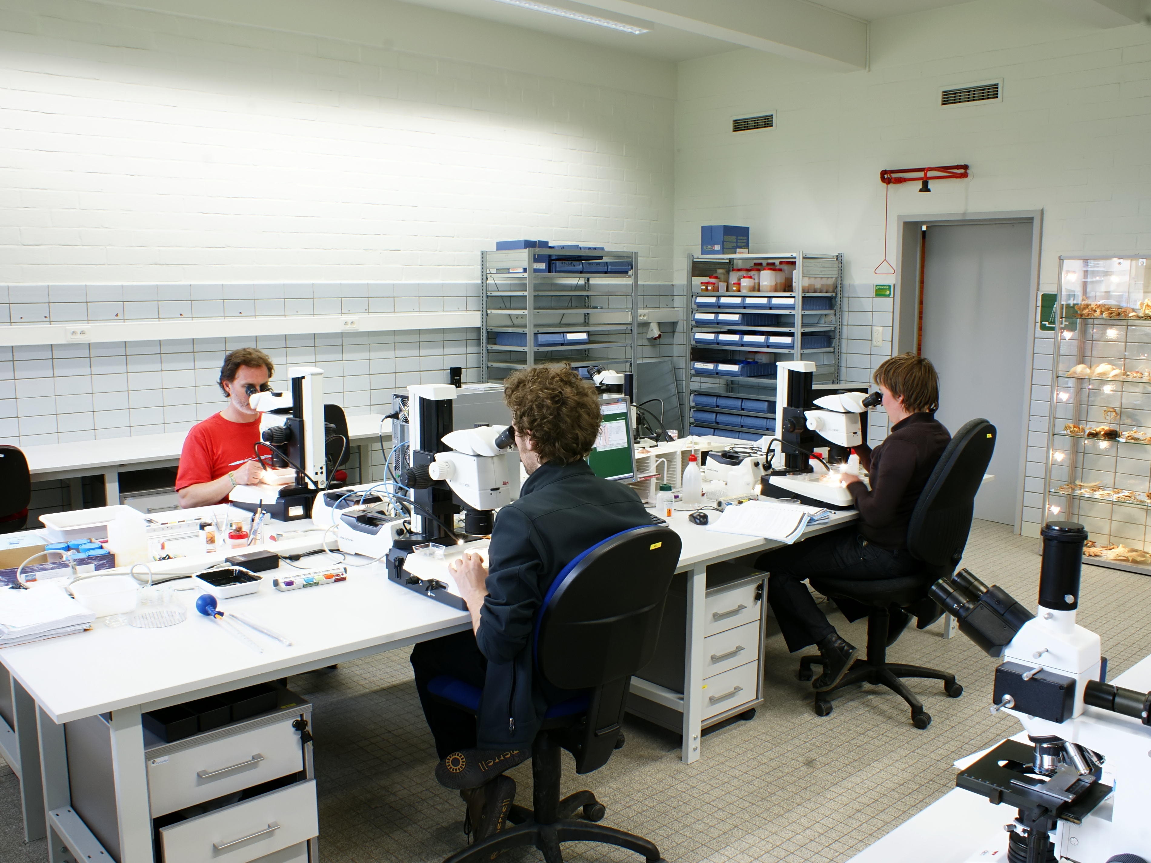 ILVO microscopy lab in Ostend, Belgium